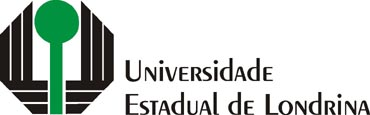 Symbol of Londrina State University (Londrina - Brazil)